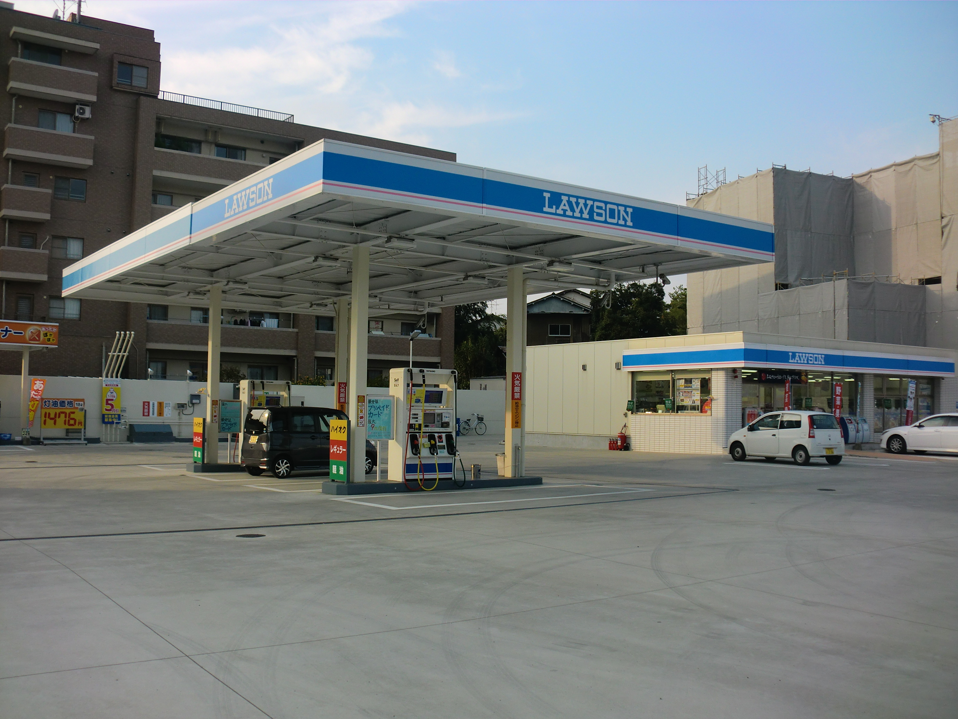 福岡県糟屋郡新宮町にあるローソン新宮美咲3丁目（しんぐうみさきさんちょうめ）店。ガソリンスタンド併設